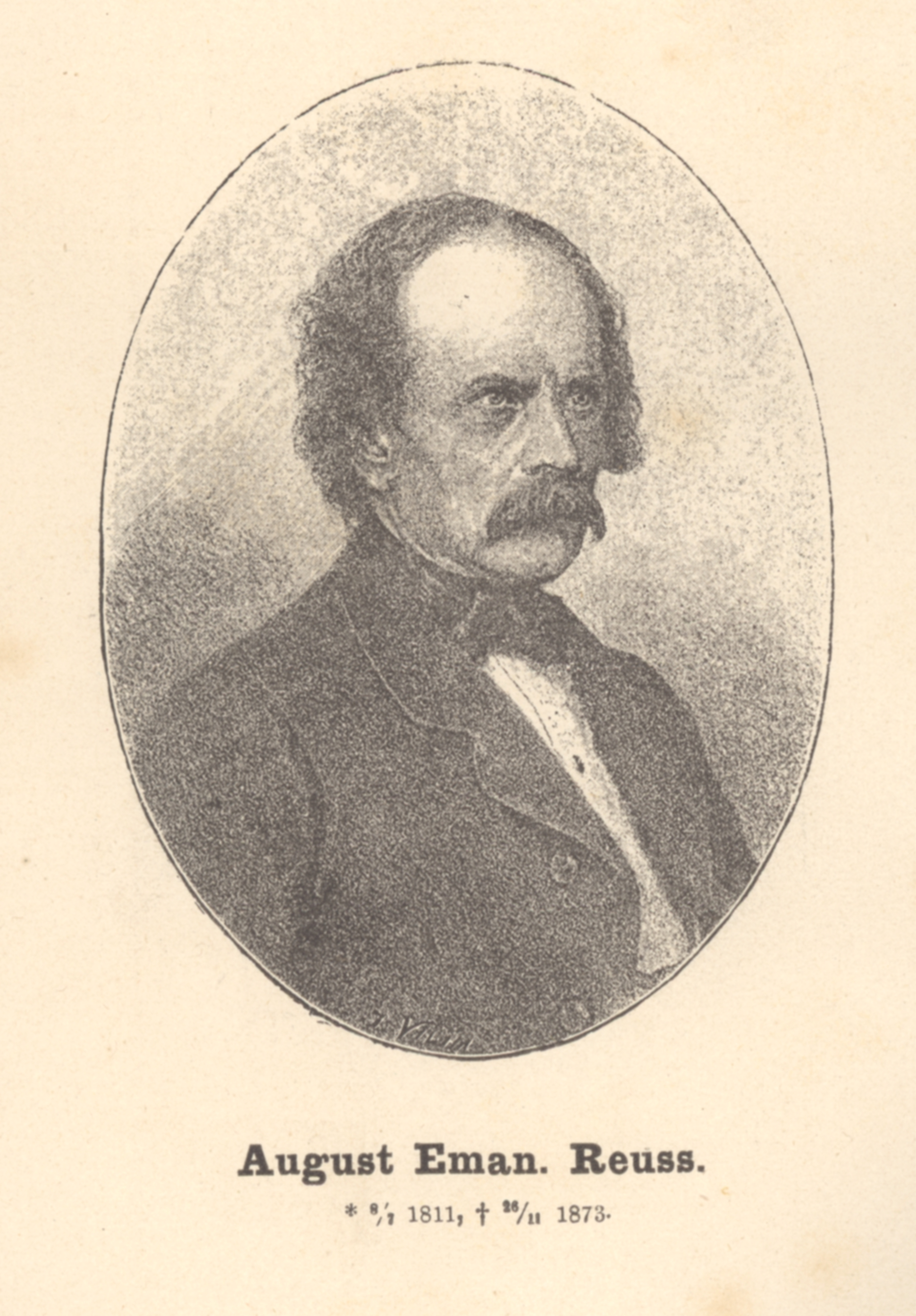 August Emanuel Reuss (1811-1873), bohemian physician and geologist (print 1902)